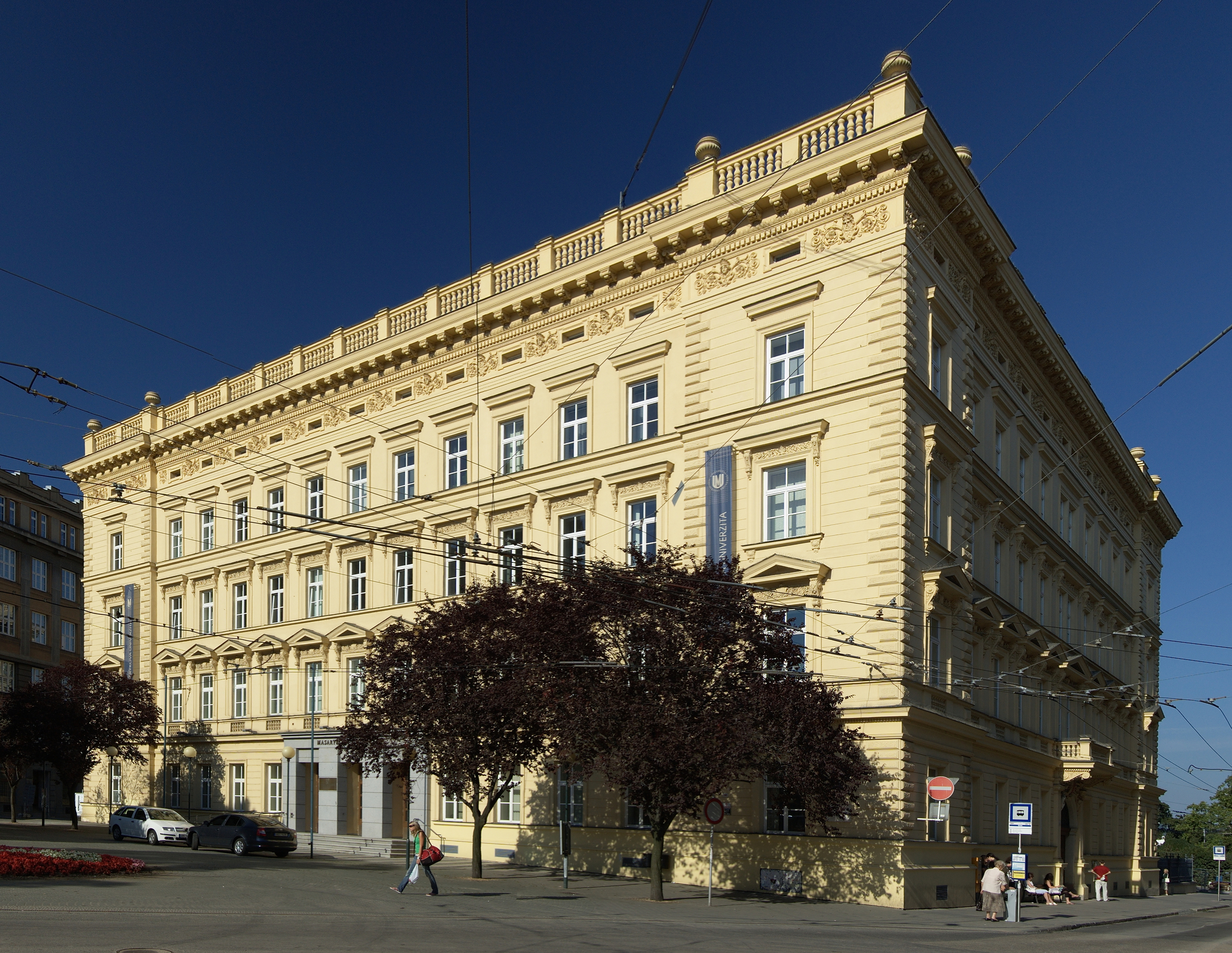 Kounic's palace in Brno. This image was created with Hugin